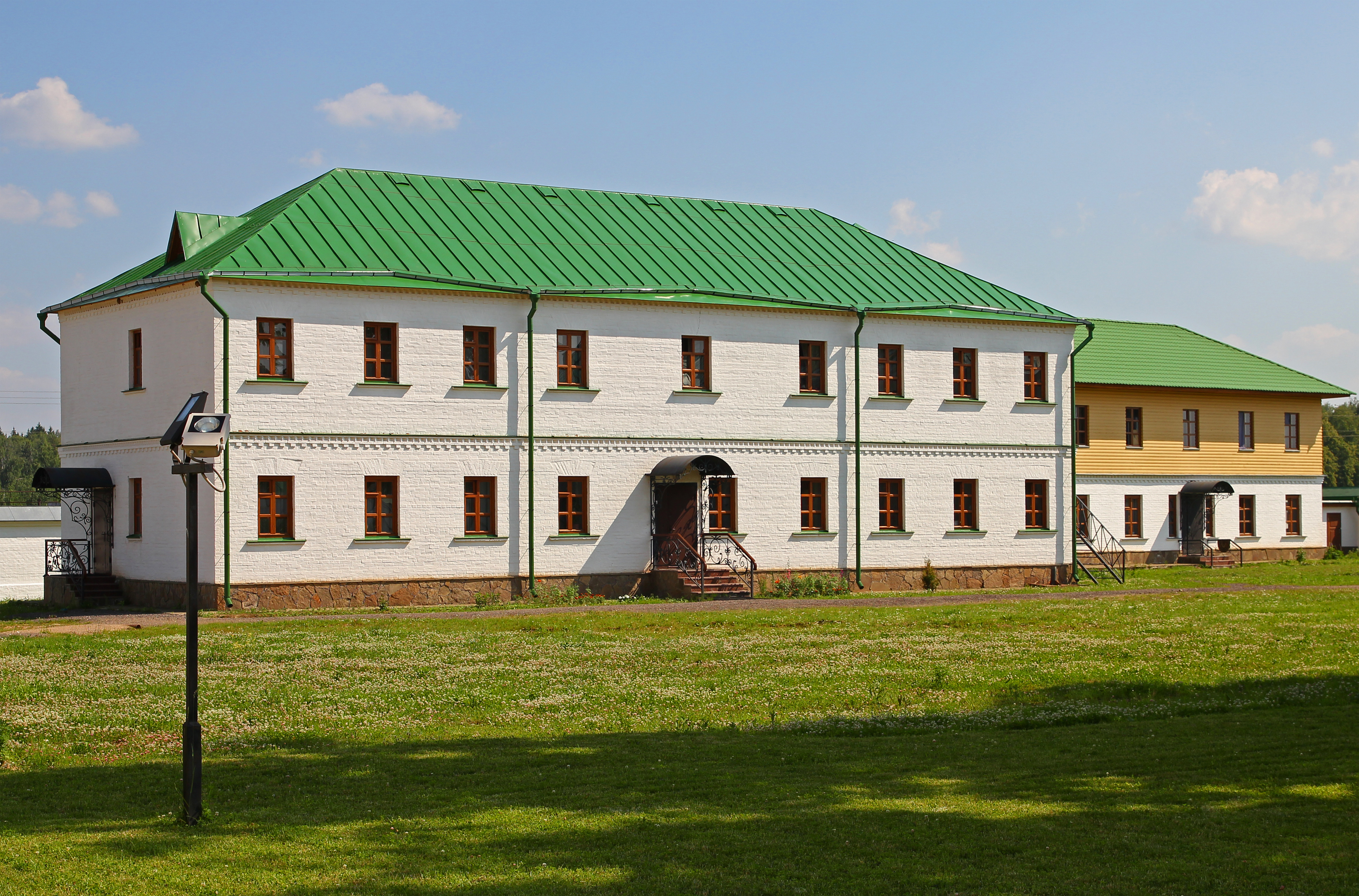 The Anosin Monastery near Dedovsk (Moscow Oblast, Russia). A building with the nun cells.